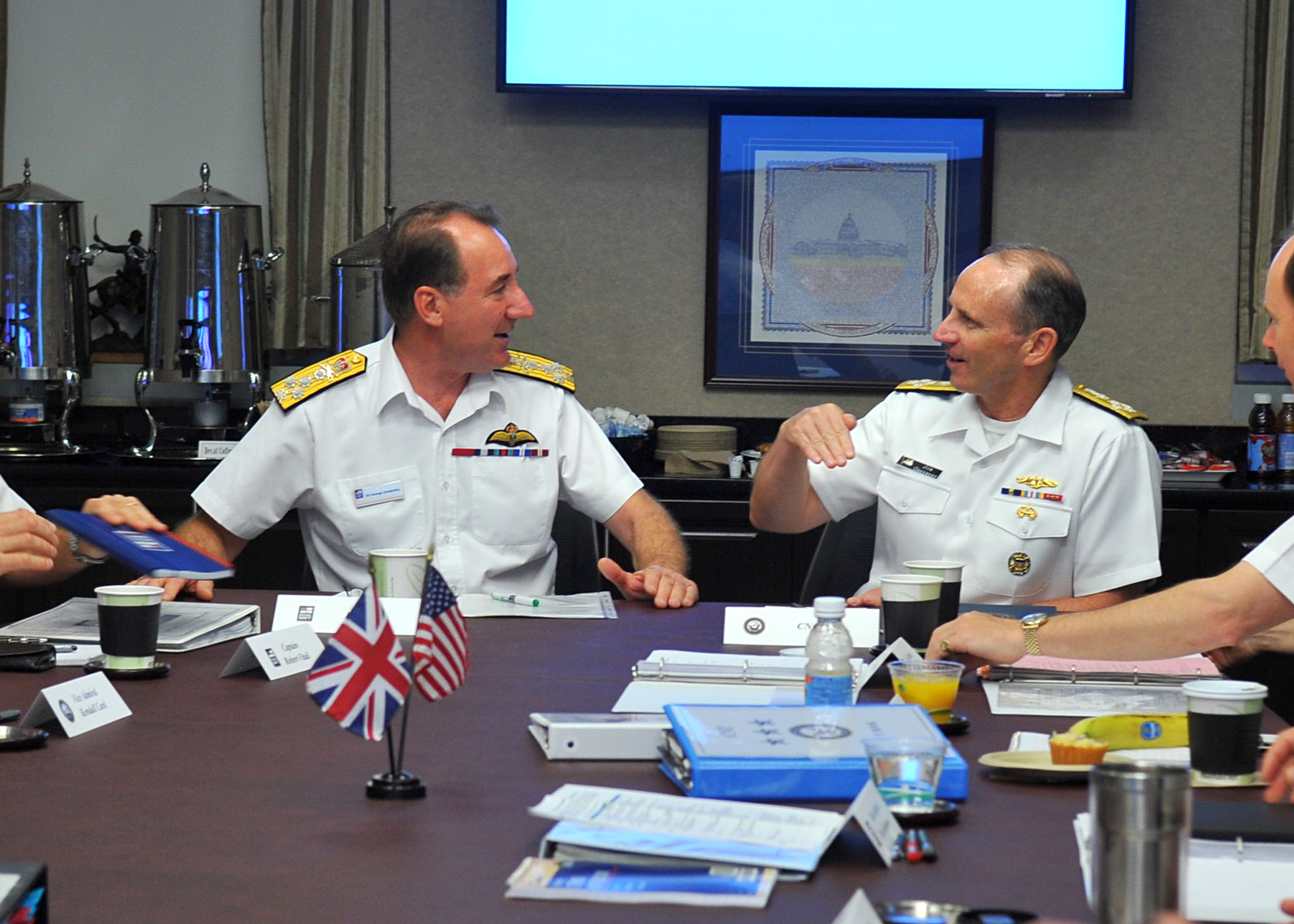 Chief of U.S. Naval Operations Adm. Jonathan Greenert, right, speaks with British Royal Navy First Sea Lord Adm. Sir George Zambellas during a meeting at the National Defense University in Washington, D.C., June 6, 2013.